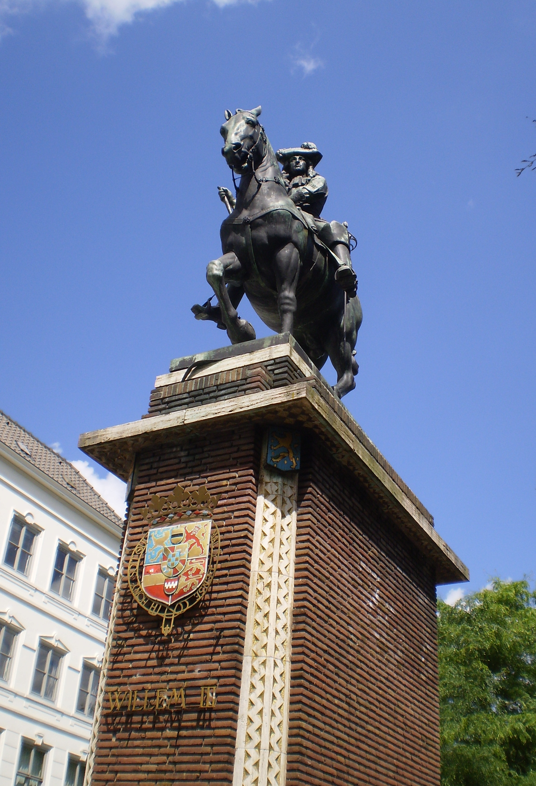 Equestrian monument of Stadtholder William III of Orange on Castle Square, Breda, Netherlands, unveiled 8 October 1921